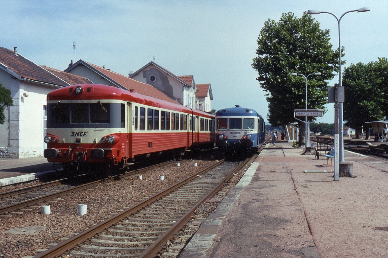 Taken during a 7 minute connection at the junction station of Paray-le-Monial in the Burgondy region of France, 17 August 1992. On the left is 2-car "Caravelle" set X4716 and X87132 having terminated with train 57516, 14:35 from Montchanin. To the right is single car X2895 on train 57520, 15:31 Paray-le-Monial to Moulins-sur-Allier.